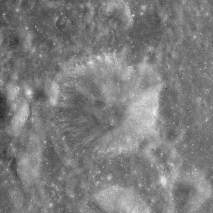 Born, on the moon. Camera Altitude is 121 km, Sun Elevation is 56°.